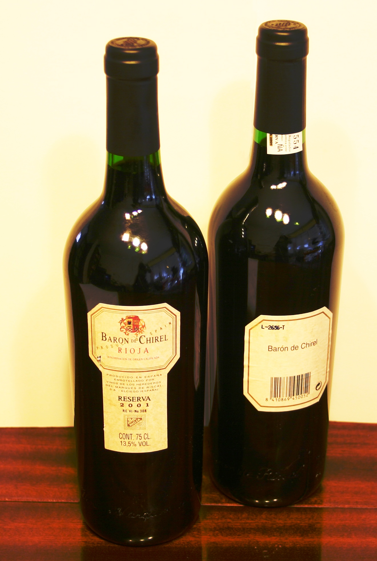 Two bottles of Baron de Chirel, Rioja wine